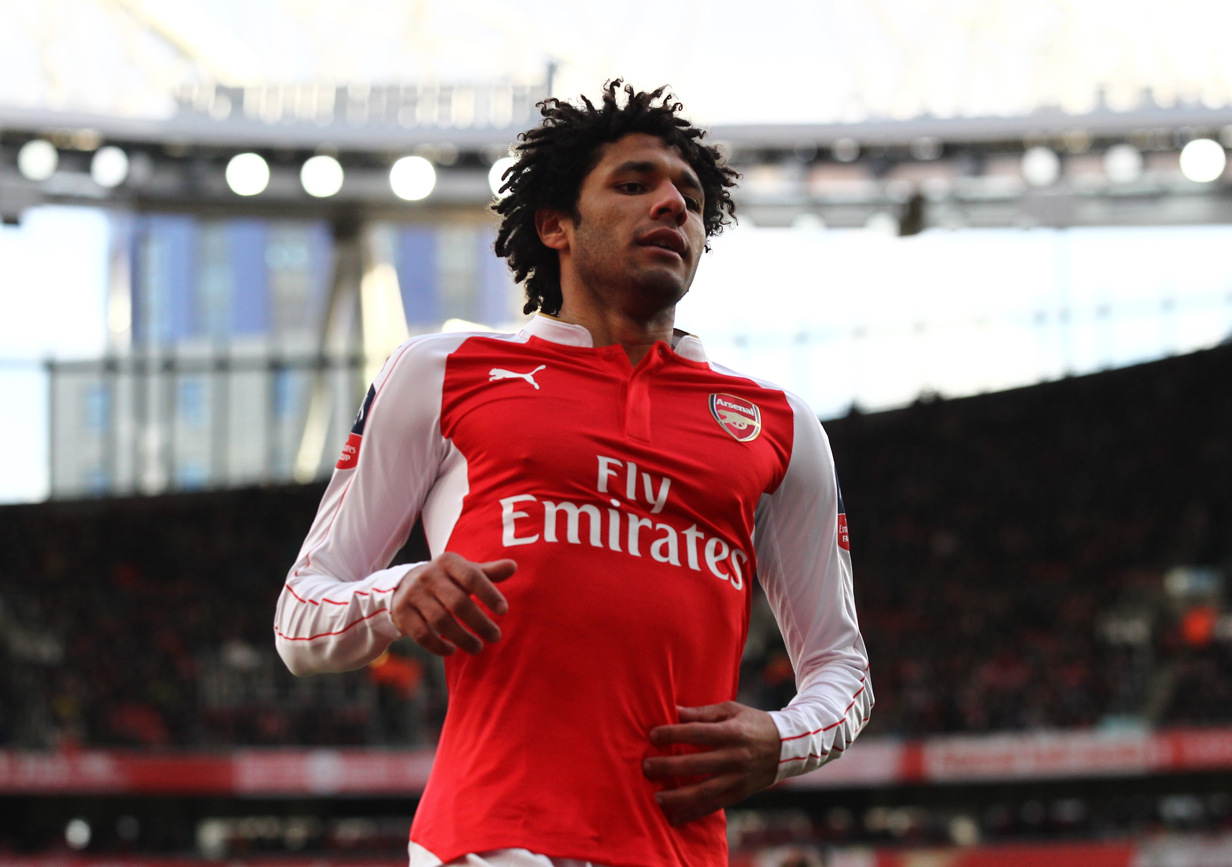 Mohamed Elneny of Arsenal during the game against Burnley.